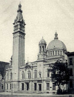 KI location: Broad Street and Columbia facade